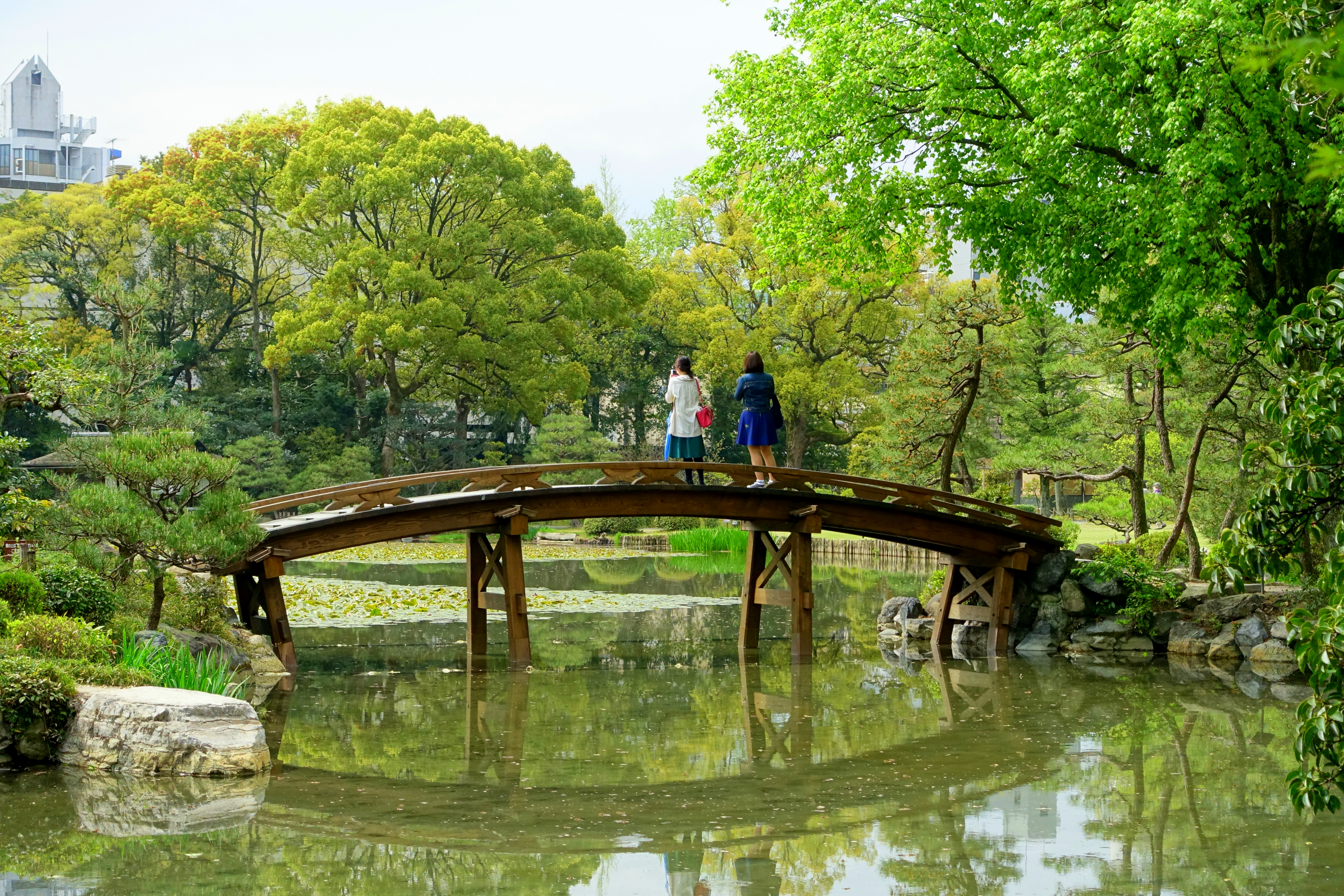 Shōsei-en (Kikoku-tei, 渉成園) - Kyoto, Japan.